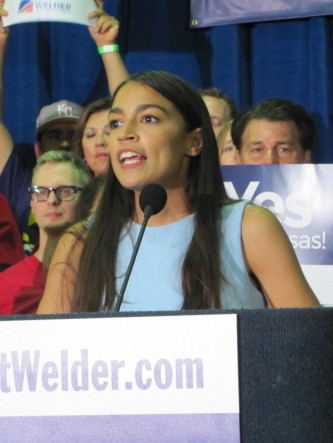 Alexandria Ocasio-Cortez at the Reardon Convention Center in Kansas City, on 20 July 2018.